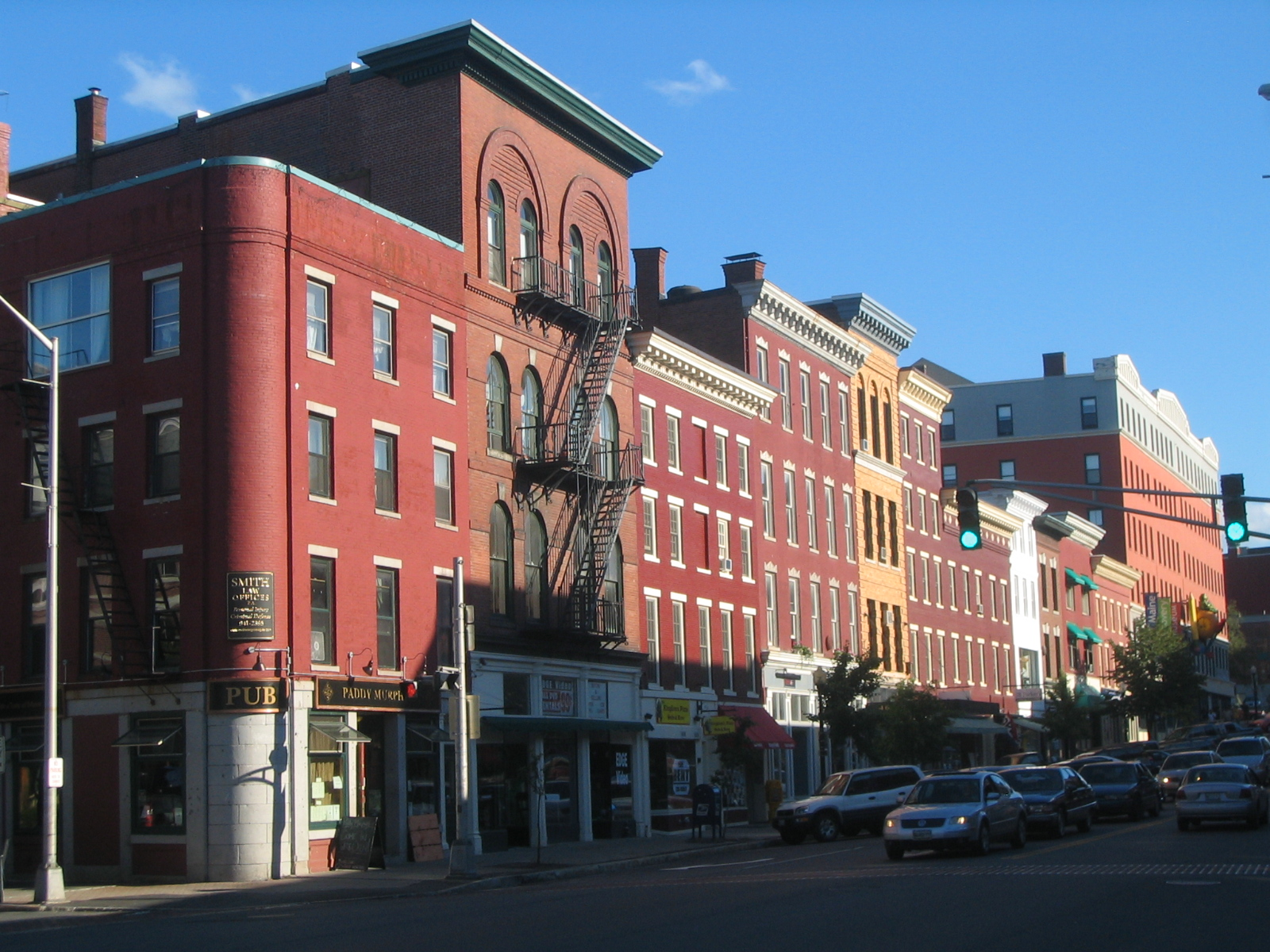 Lower Main Street, Bangor, Maine